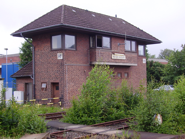 Gatekeeper's house near Heide (Holstein) station